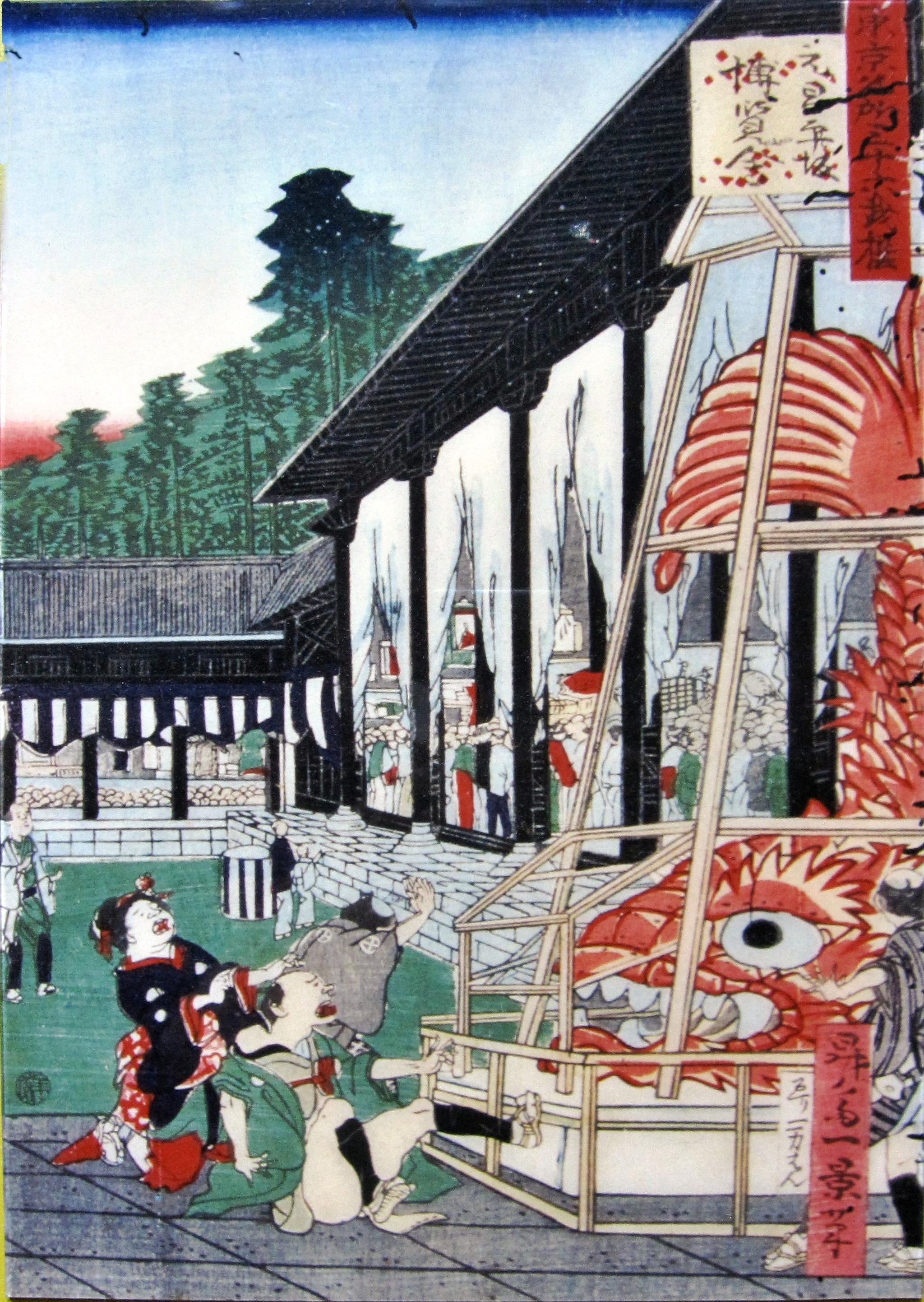 The male golden shachi of Nagoya Castle at the Yushima Seido or Shōheizaka Exhibition in Tokyo in 1872, with people falling in awe in front of it. Ukiyo-e print by Ikkei Shosai.